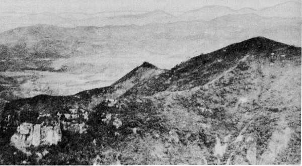 North Korean held positions during the Battle of Masan during the Korean War, 1950.